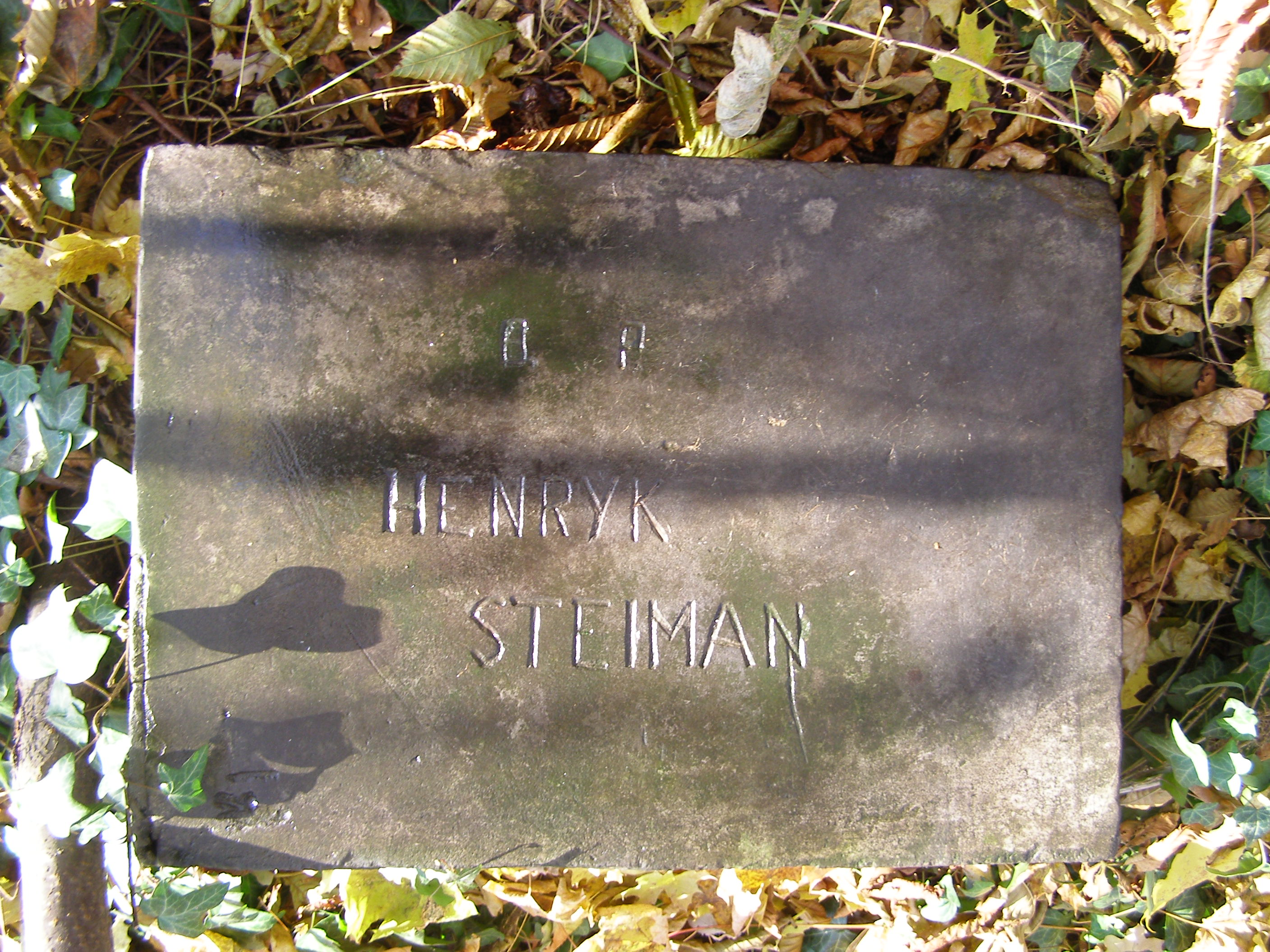 Henryk Steinman's grave, Jewish Cemetery in Tomaszów Mazowiecki